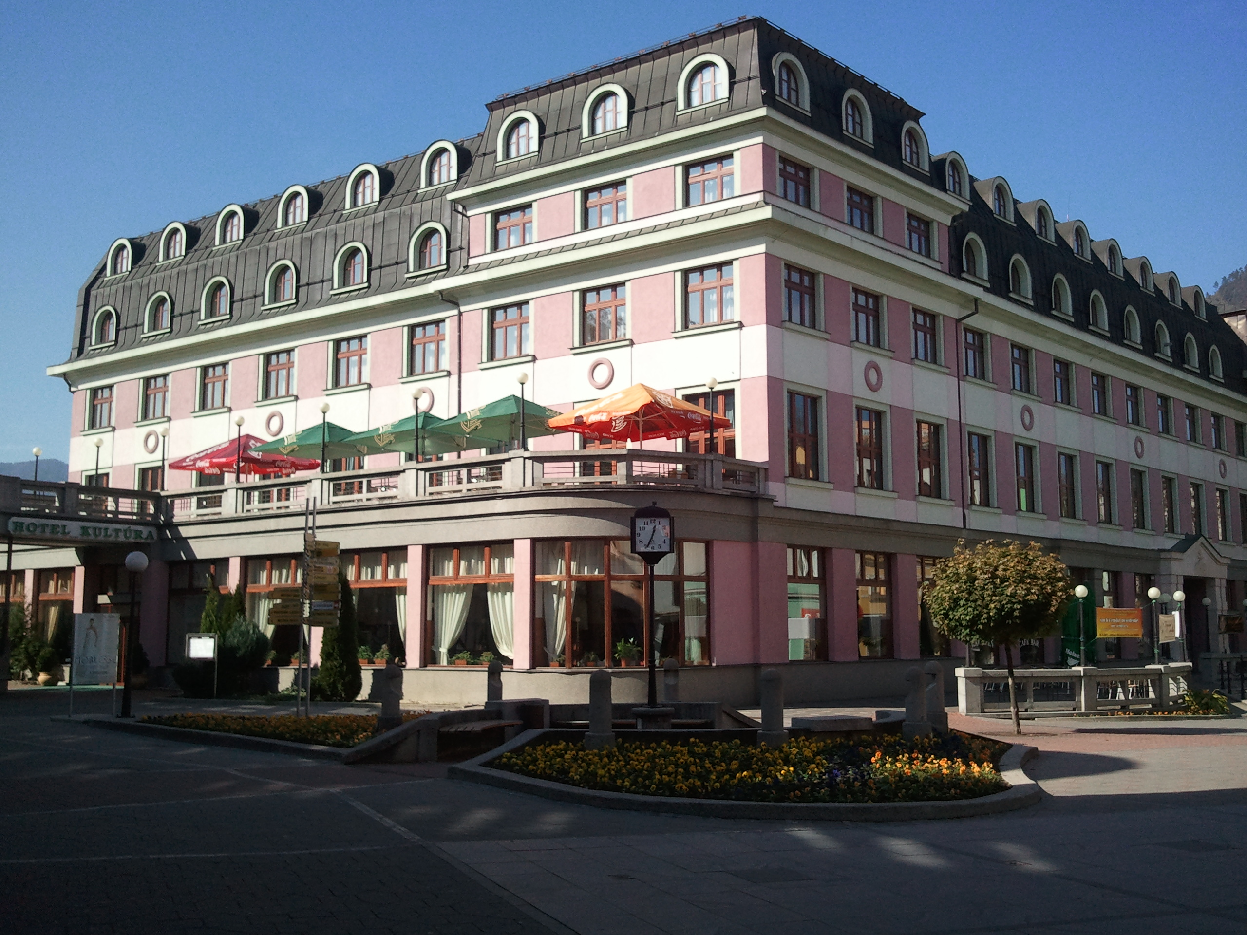 Hotel Kultura in Ruzomberok